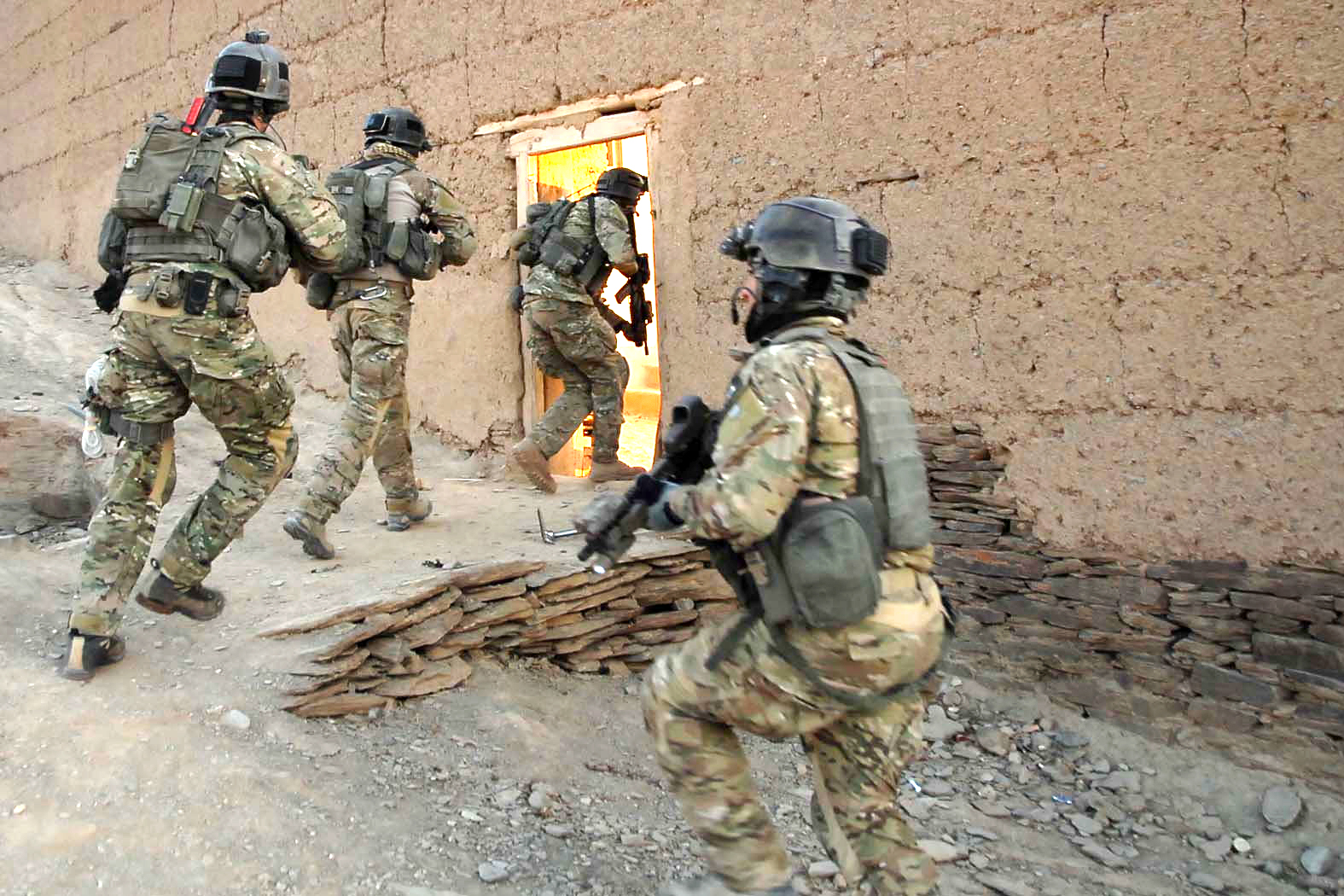 Afghan international security forces enter a targeted compound in th Nerkh district in Wardak province, Afghanistan, Nov. 19, 2009. The joint force searched the compound without incident and detained one suspected militant.